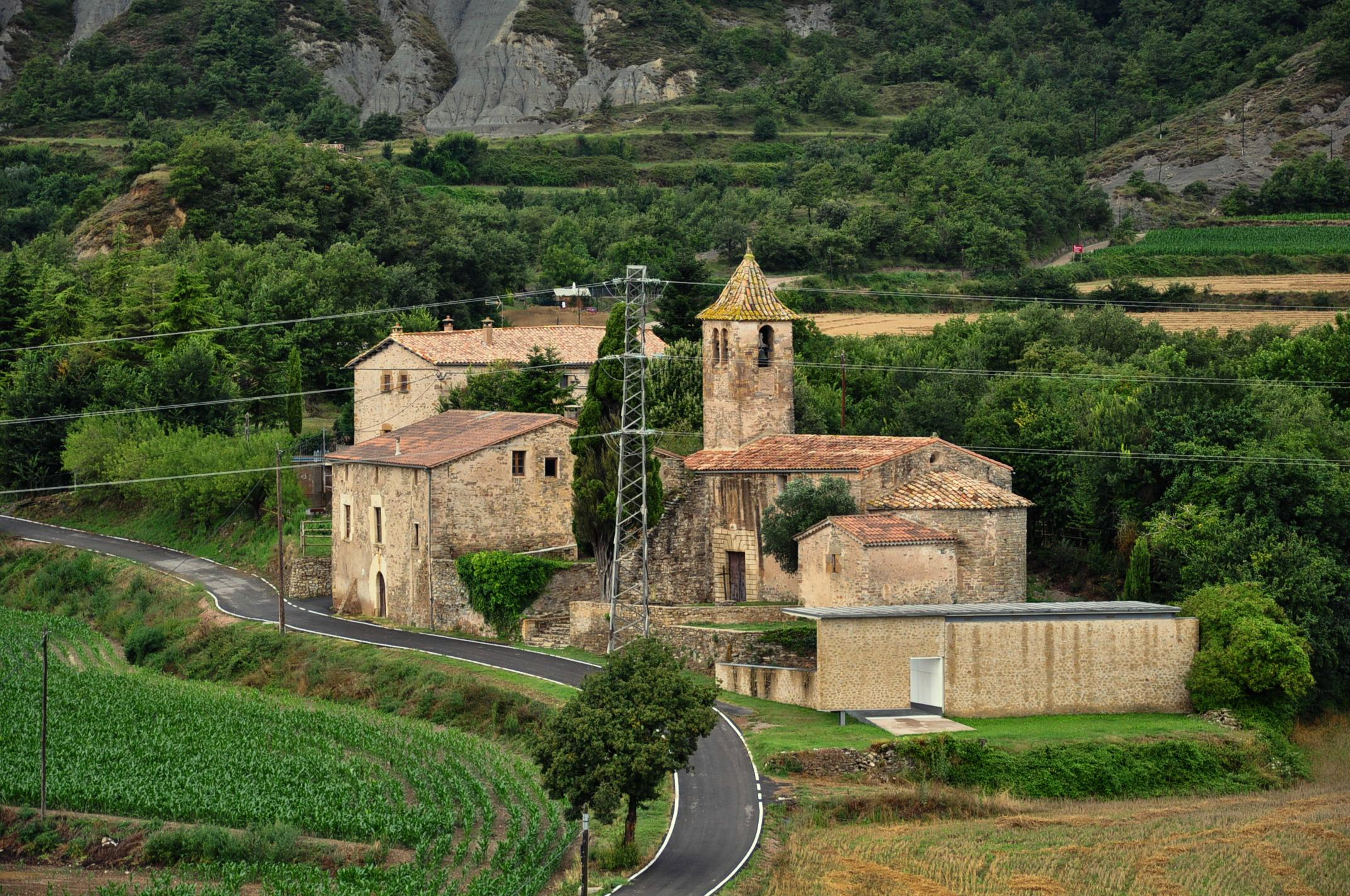 Parish Church of St. Stephen in the hamlet of Múnter (Muntanyola municipality, county Osona, Catalonia, Spain). The church forms a small group with a house and the rectory. The rectory is a large Catalan farmhouse. The church is of Romanesque origin, but was transformed in the 17th century.